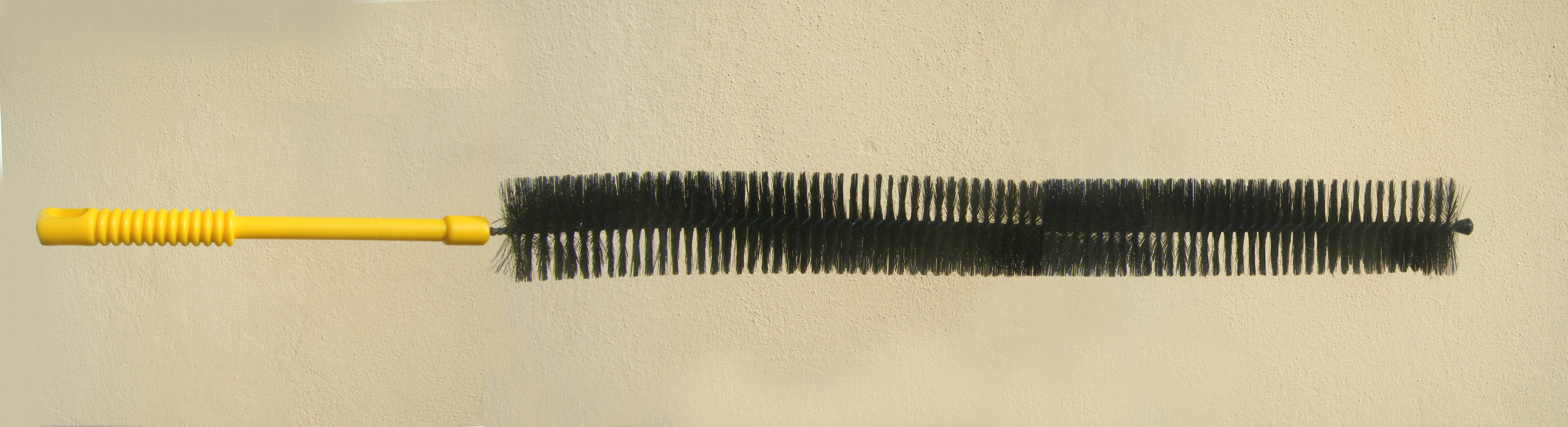 long brush for cleaning tubes